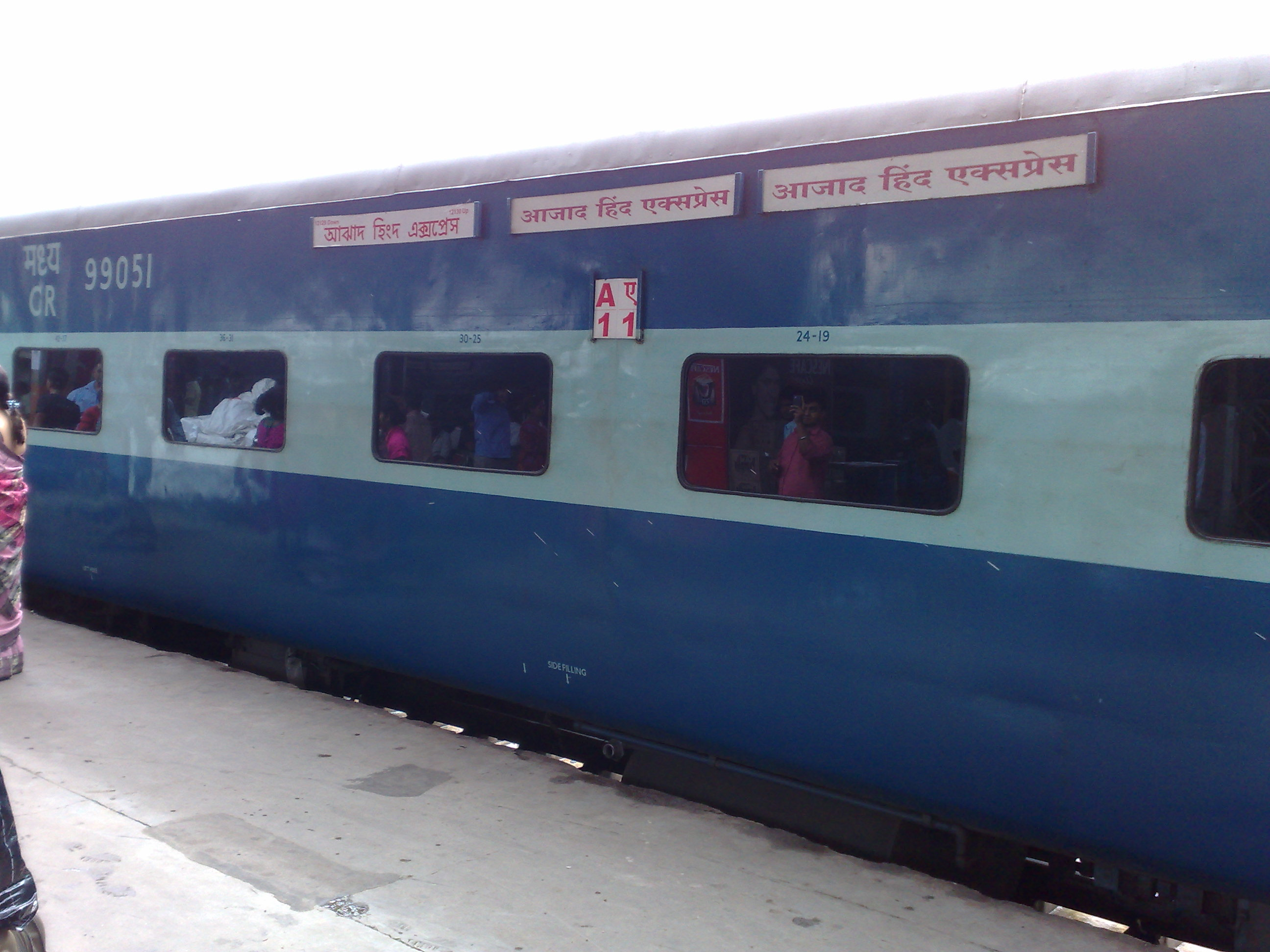 12129 Azad Hind Express AC 2 tier coach